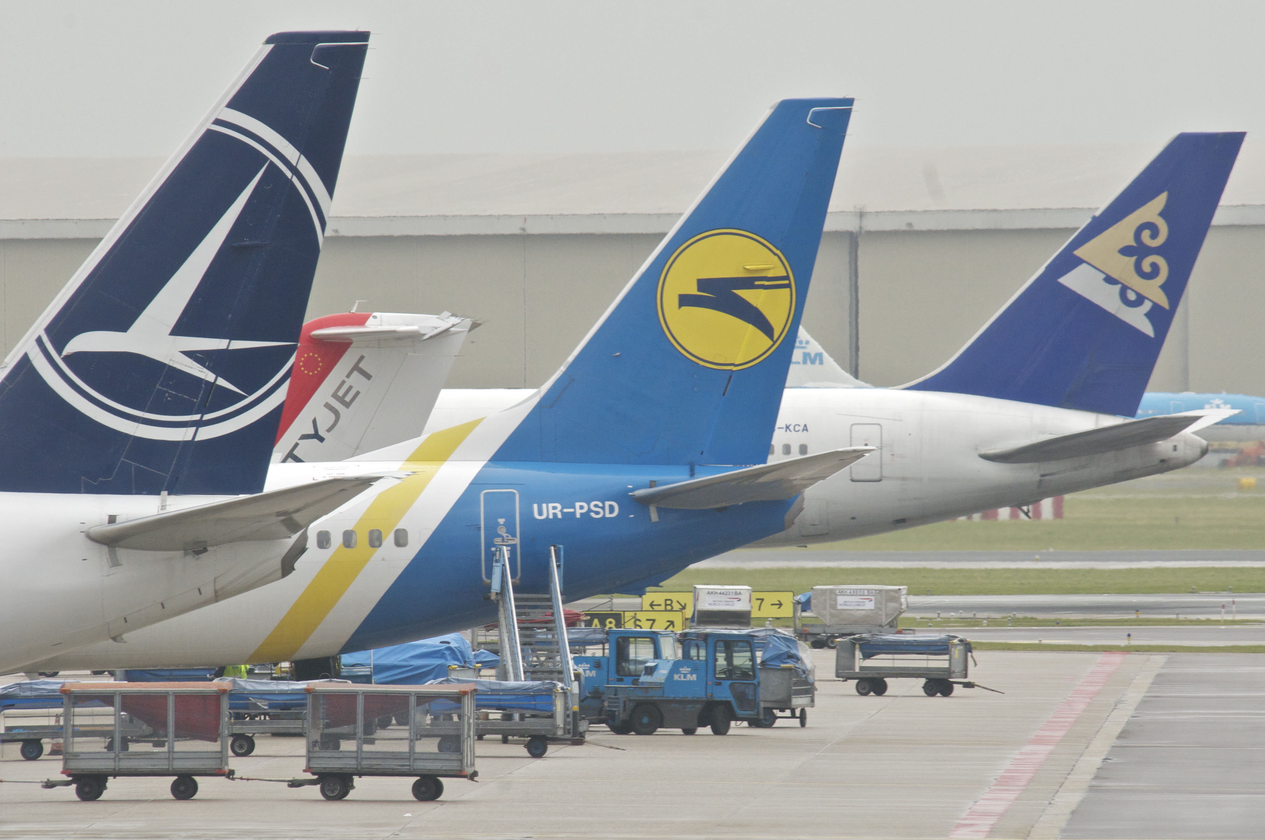 Tails @ AMS, April 15, 2013-3